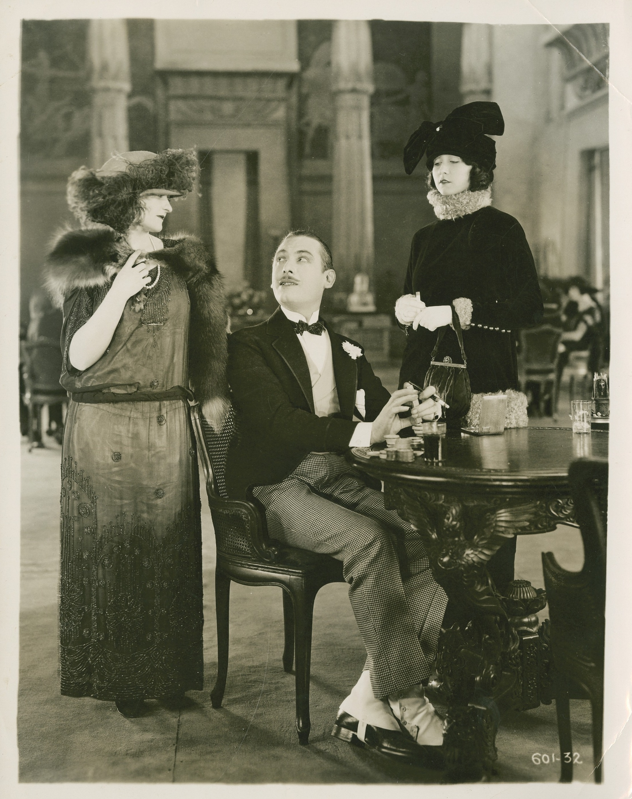 Publicity image for the American film Lawful Larceny (1923), published without a copyright notice pre 1978.